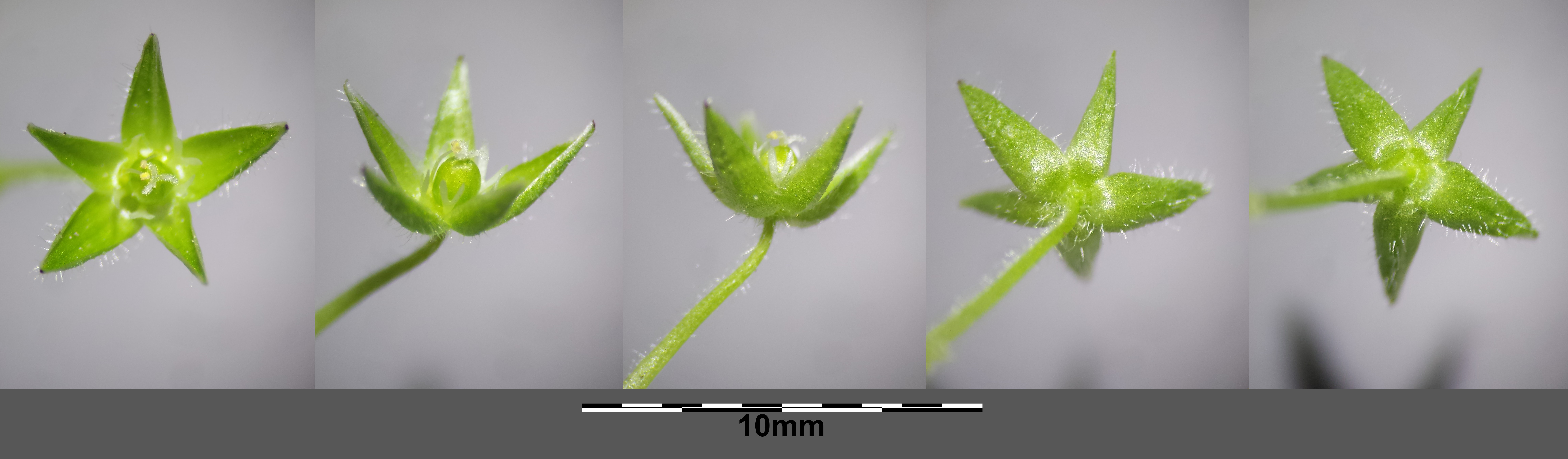 Flower Taxonym: Stellaria pallida ss Fischer et al. EfÖLS 2008 ISBN 978-3-85474-187-9 Location: Sinawastingasse, Vienna-Floridsdorf - ca. 160 m a.s.l. Habitat: ruderal lawn